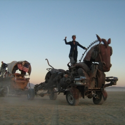 Joe Rush sculpture in desert